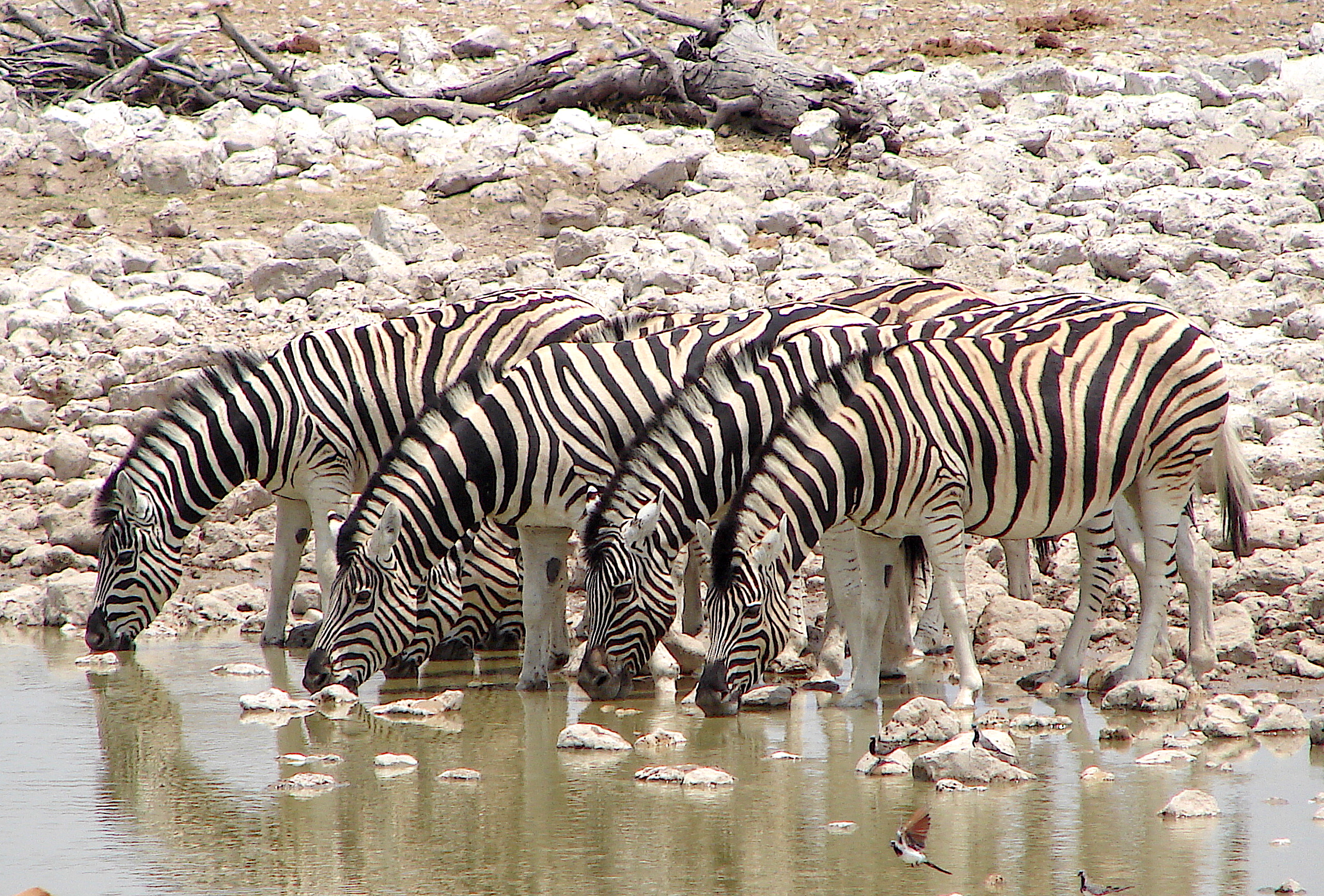 Burchell's zebra at Etosha National Park in Namibia